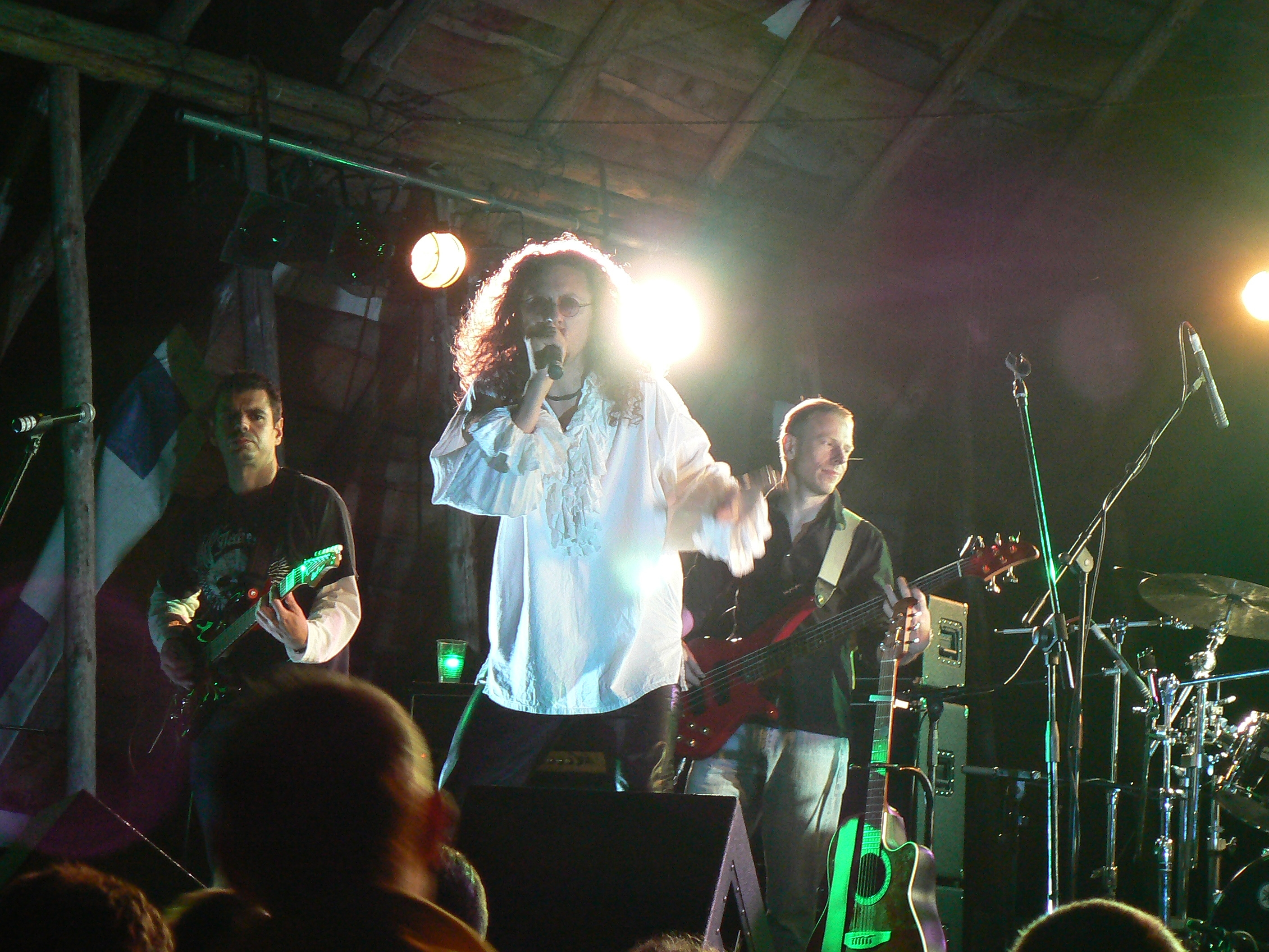 Neo-progressive rock band Arena performing at "Baltic Progressive Festival" (2007) in Kernavė, Lithuania.